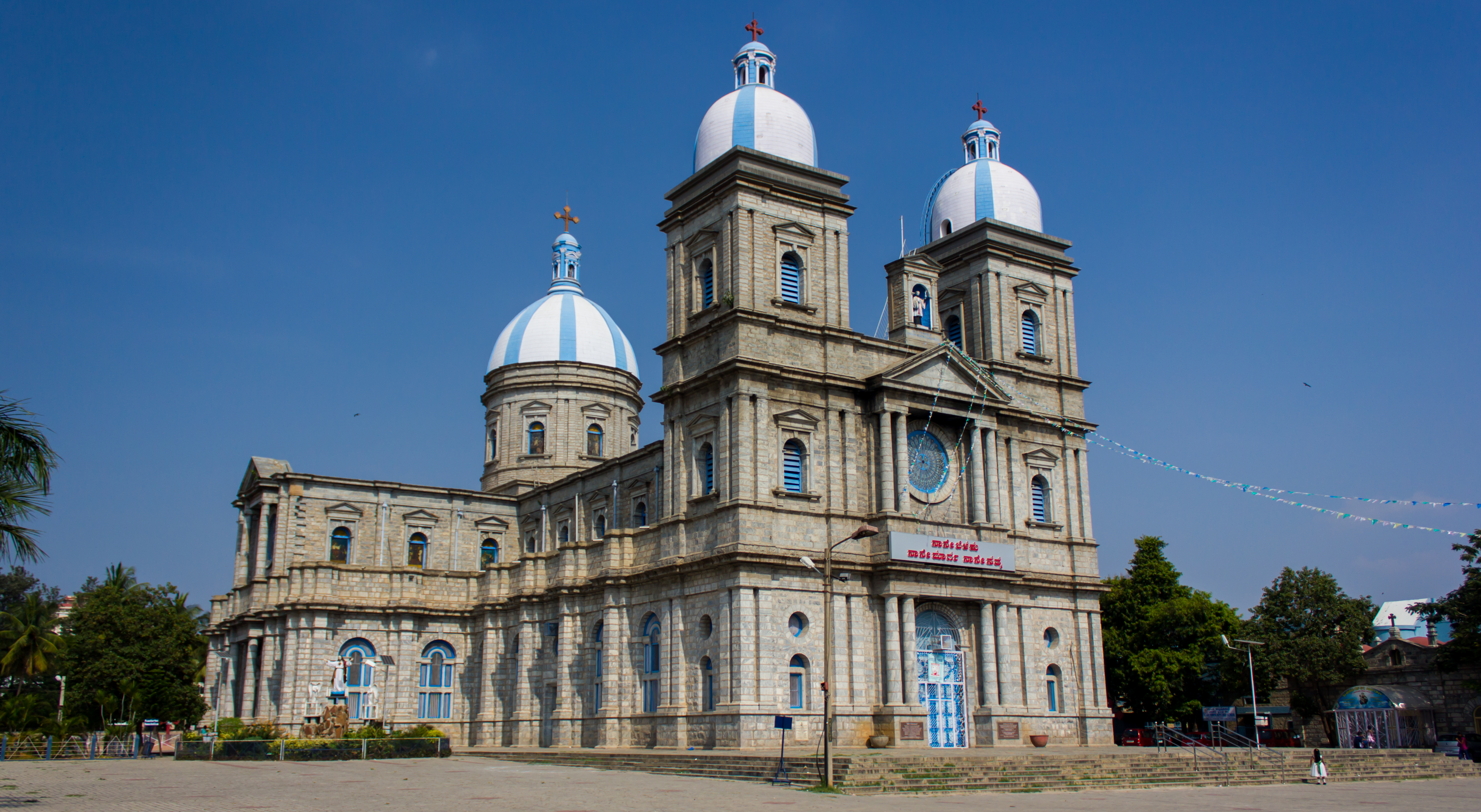 St. Francis Xavier's Cathedral, Bangalore by Saad Faruque